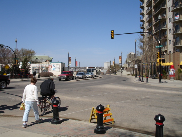 "Five Corners", the intersection of Broadway Avenue and 12th Street East in Saskatoon, Saskatchewan, Canada.